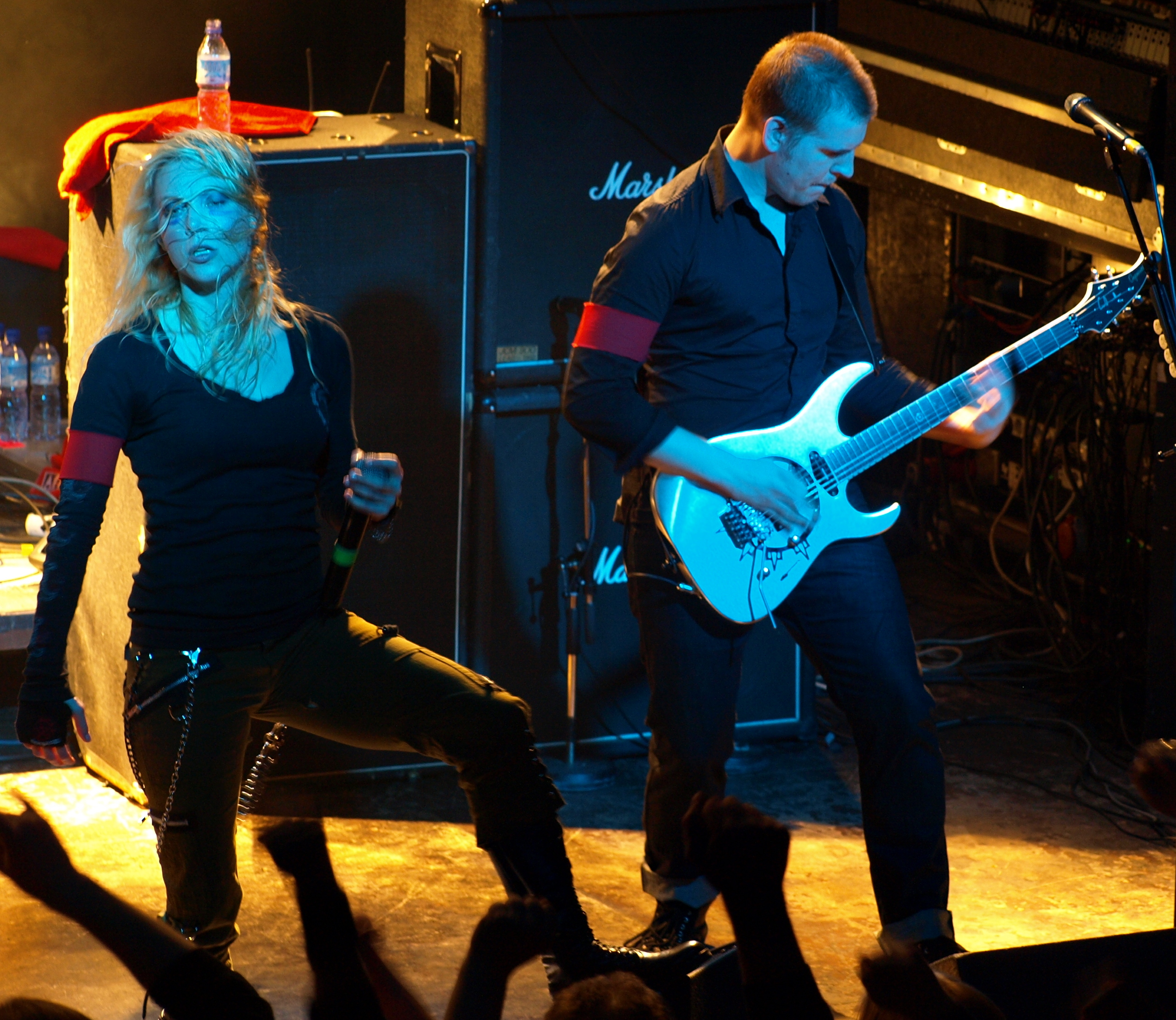 Swedish melodic death metal band Arch Enemy